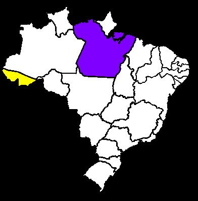 BRAZIL_Acre_Pará